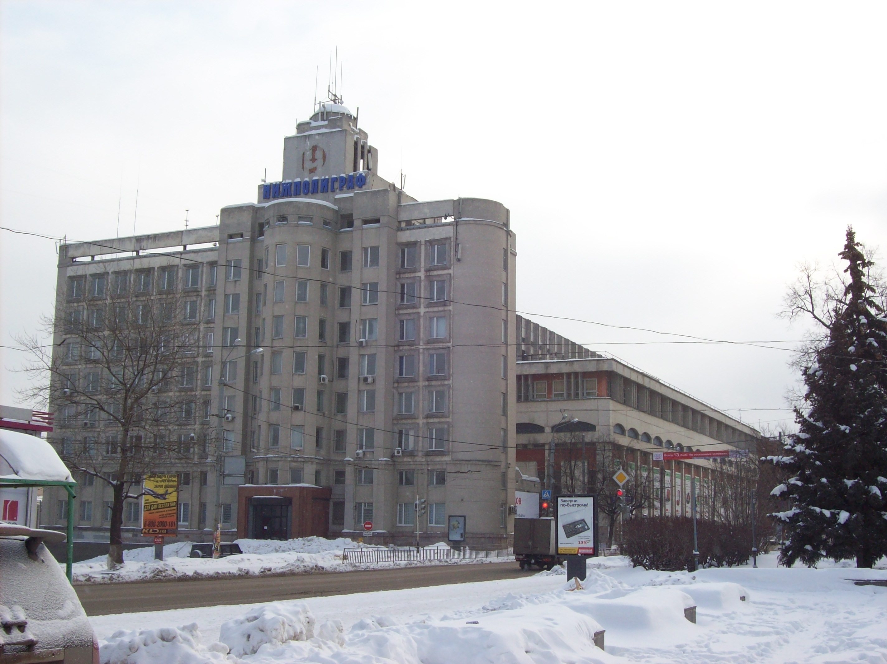 The Nizhpoligraf published in Nizhny_Novgorod colour photo